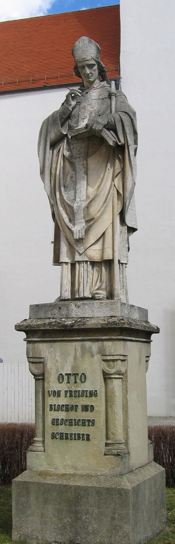 Statue of Otto of Freising located adjacent to the cathedral of Freising, sculpted by Kaspar von Zumbusch. Photograph taken by Mark Somoza on April 3 2006